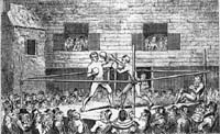 Early 19th century print of a boxing match. Public domain by virtue of age